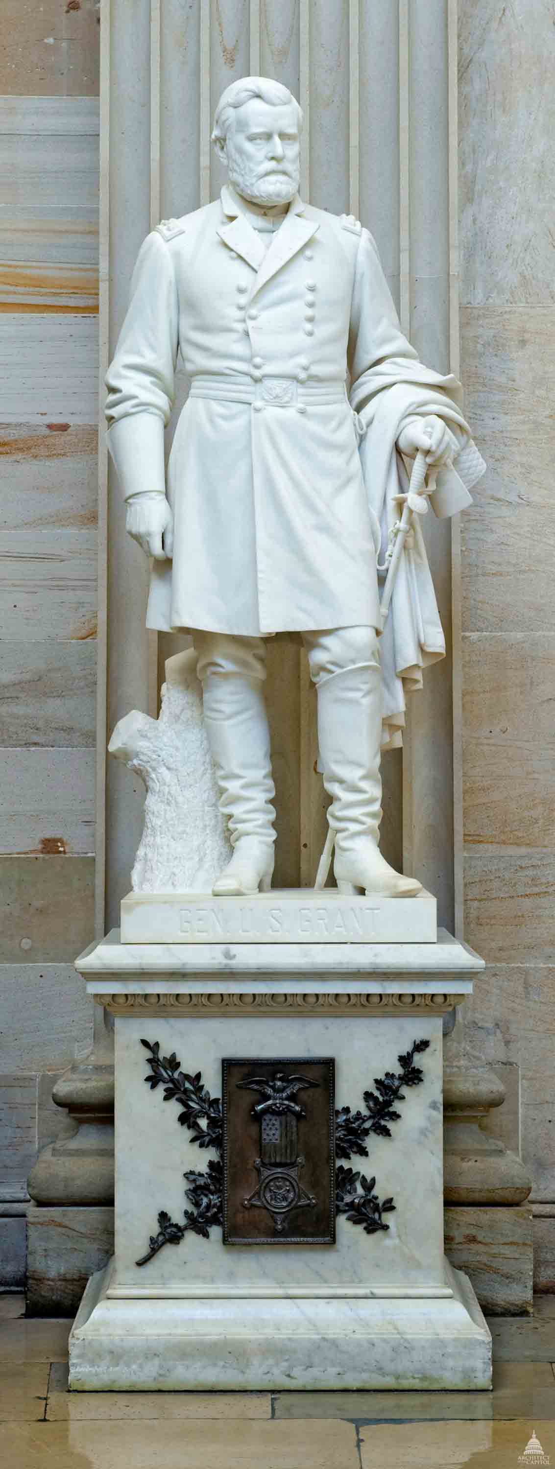 The statue of Ulysses S. Grant by Franklin Simmons is located in the Rotunda of the U.S. Capitol Building. Franklin Simmons Marble 1899 Rotunda U.S. Capitol For more information visit: This official Architect of the Capitol photograph is being made available for educational, scholarly, news or personal purposes (not advertising or any other commercial use). When any of these images is used the photographic credit line should read “Architect of the Capitol.” These images may not be used in any way that would imply endorsement by the Architect of the Capitol or the United States Congress of a product, service or point of view. For more information visit